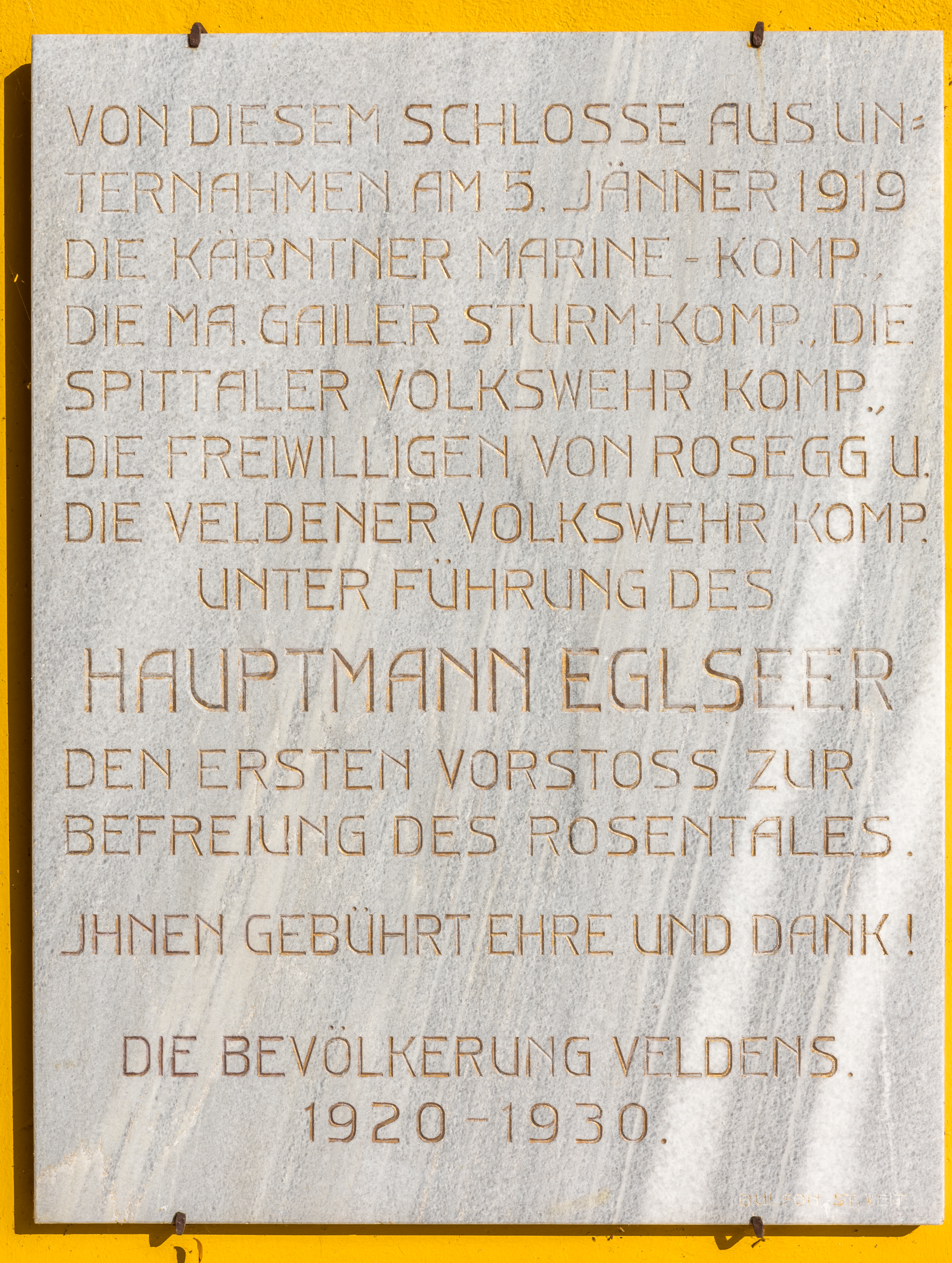 Memorial plaque for captain Eglseer at castle hotel on Seecorso #10, market town Velden am Wörther See, district Villach Land, Carinthia, Austria, EU